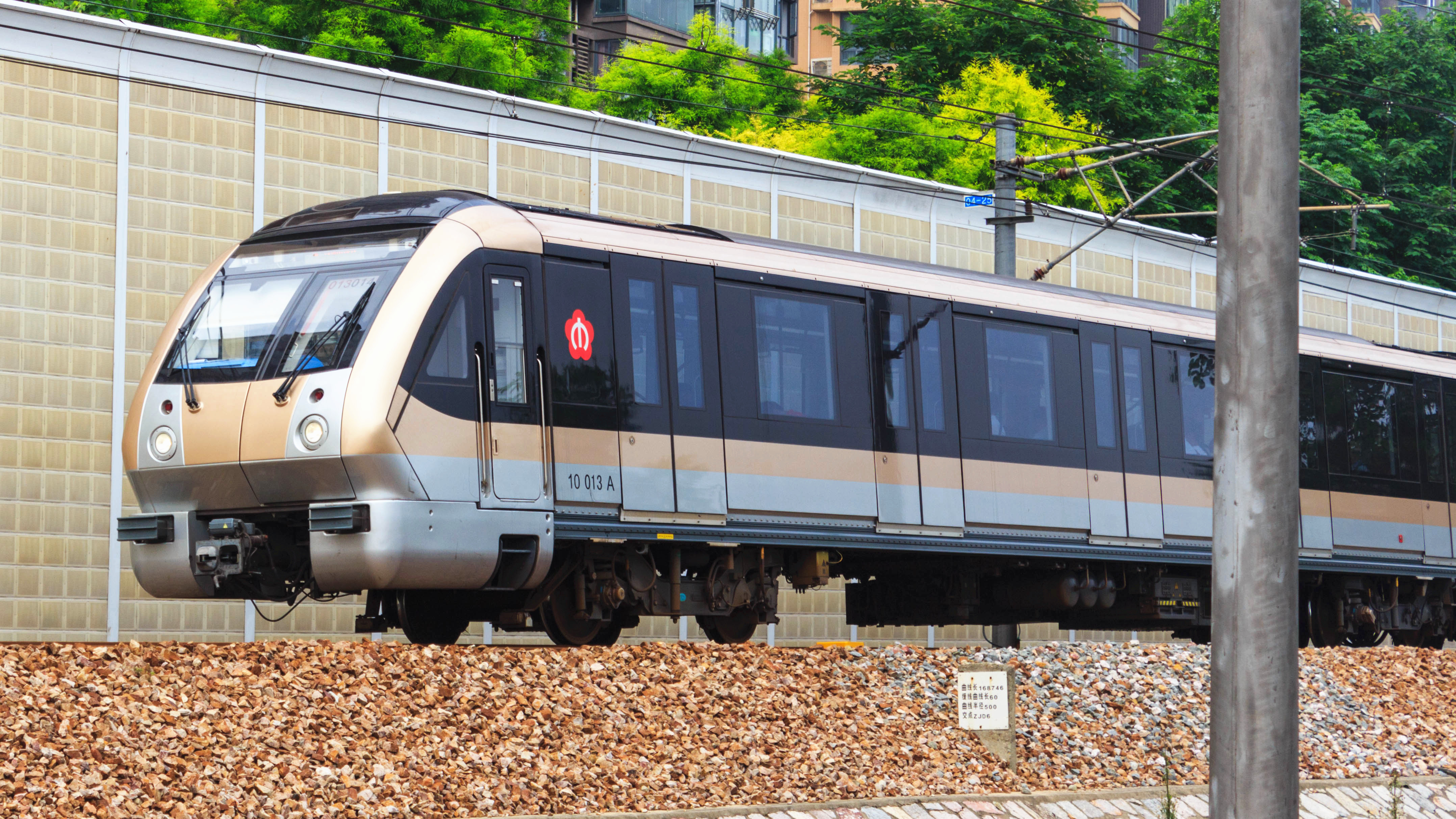 A nanjing metro line 10 train(No.013014) near Xiaohang Station